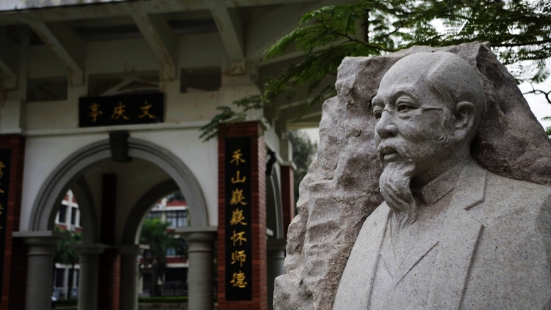 Statue of Lim Boon Keng in Xiamen University